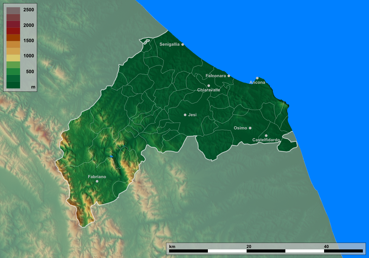 Map created with 3DEM from SRTM ( Administrative boundaries from OpenStreetMap.